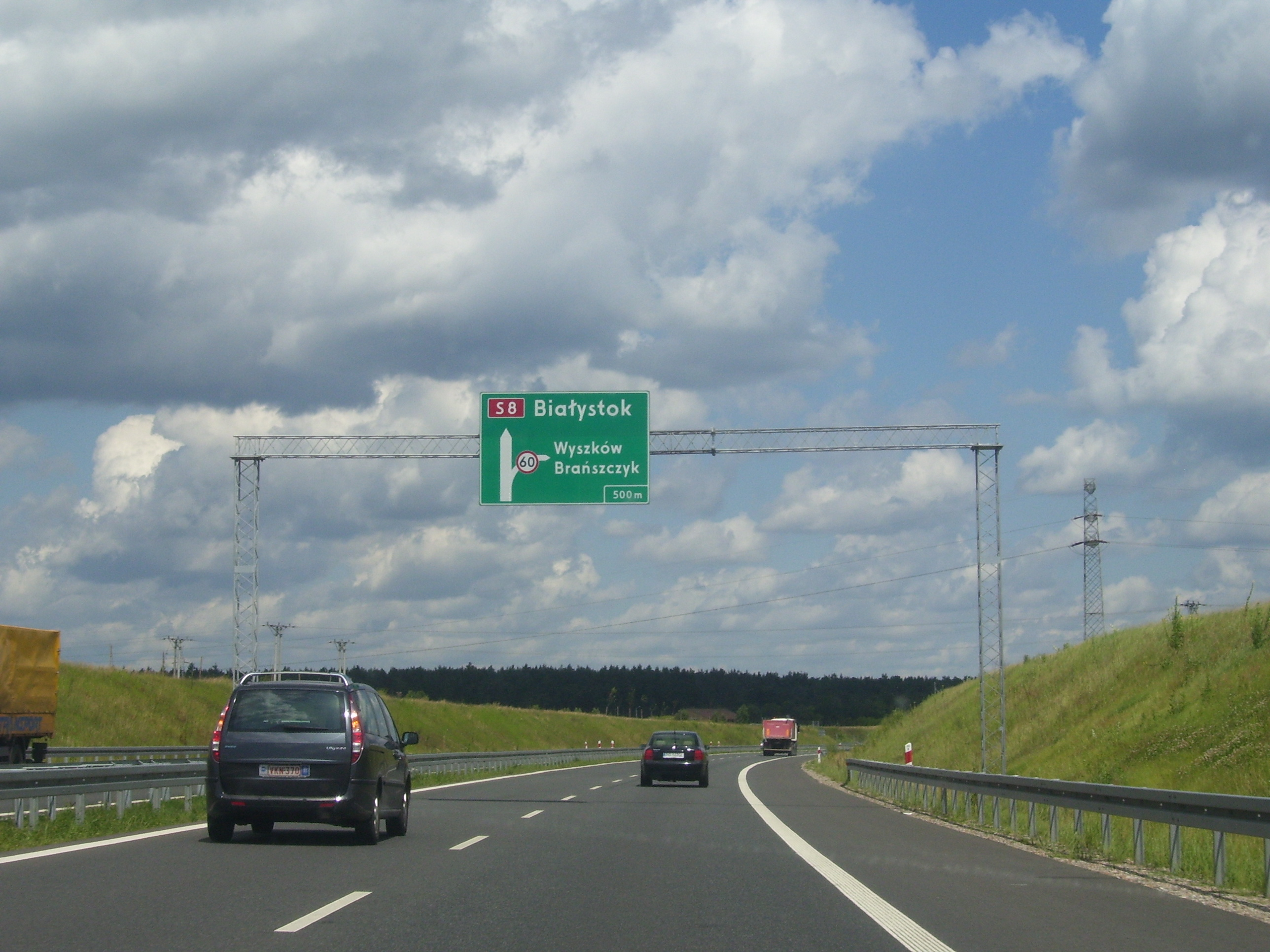 DK8 (Poland)